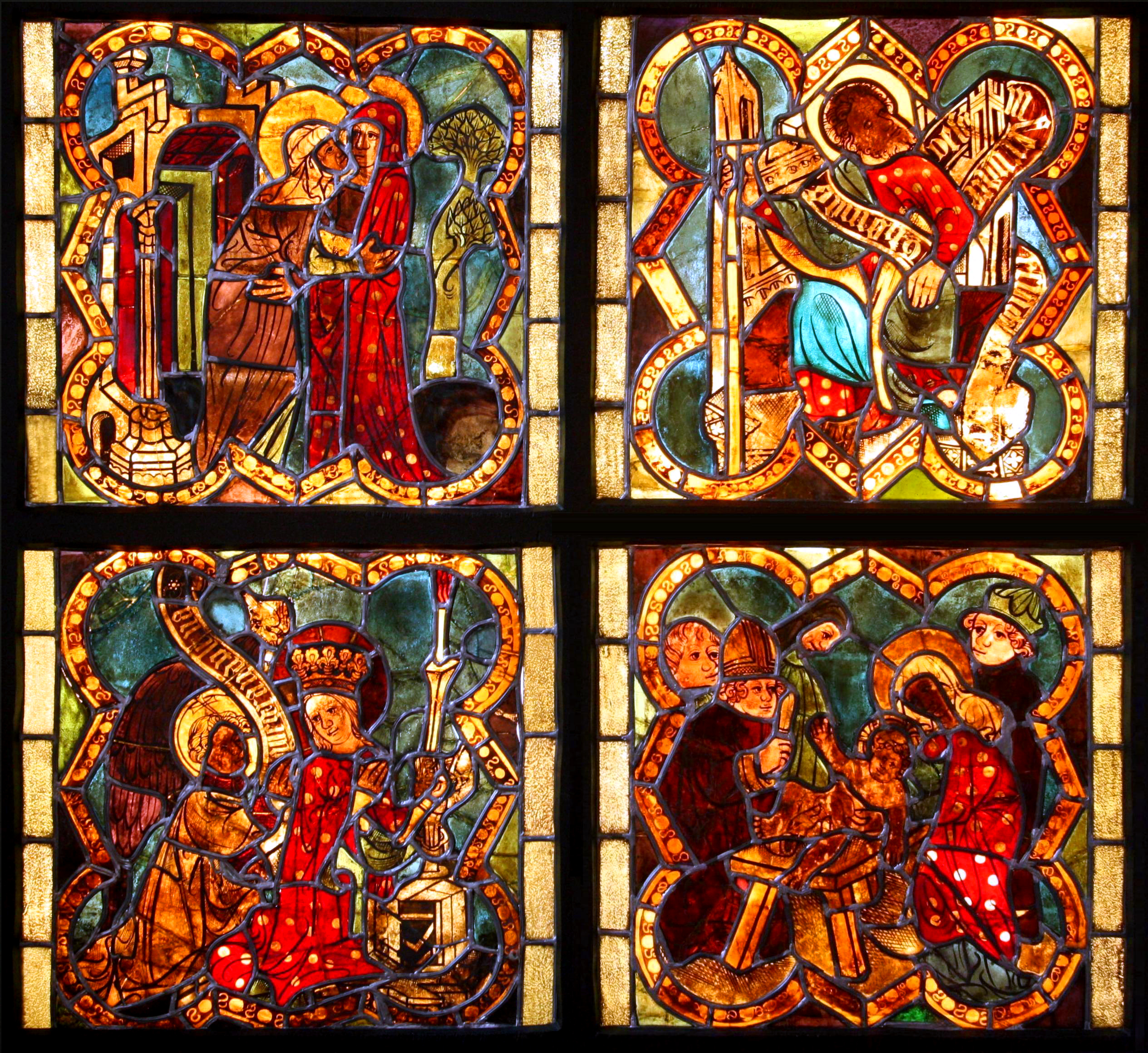 Gothic stained glass from St. Mary Church in Chelmno. Currently in the District Museum of Toruń (Poland).